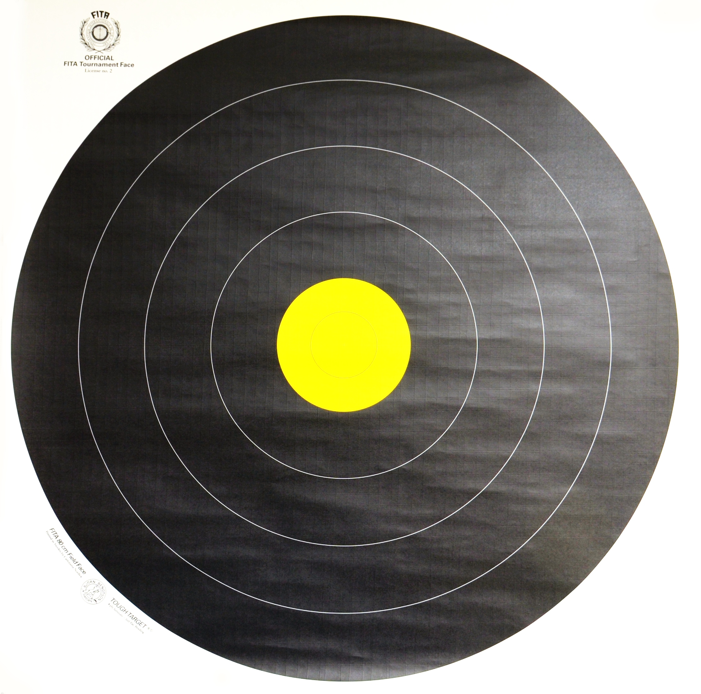 Bullseye for traditional bow shooting.